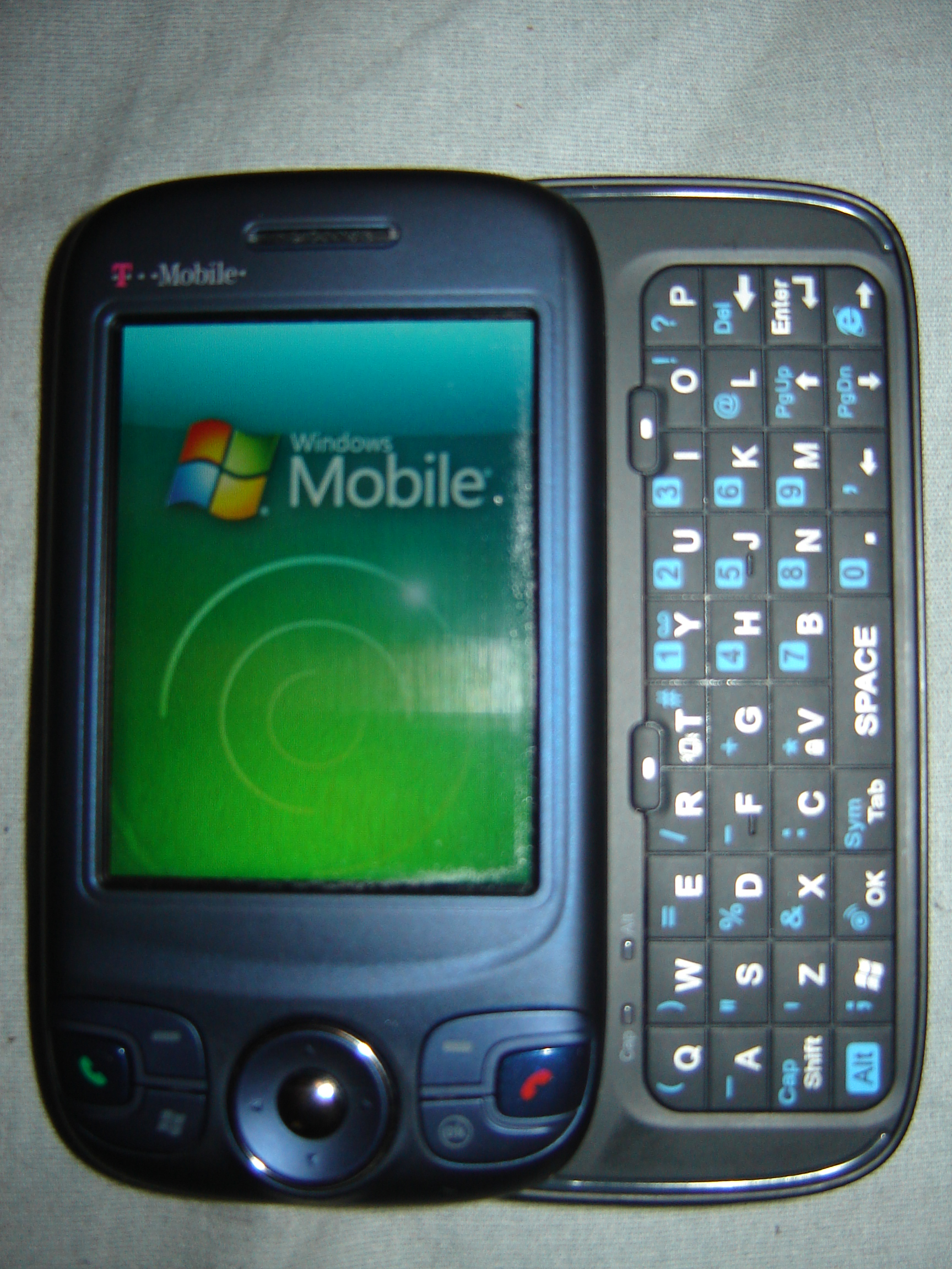 Self created picture of the T-Mobile Rebranded HTC Herald (Known as The Wing)